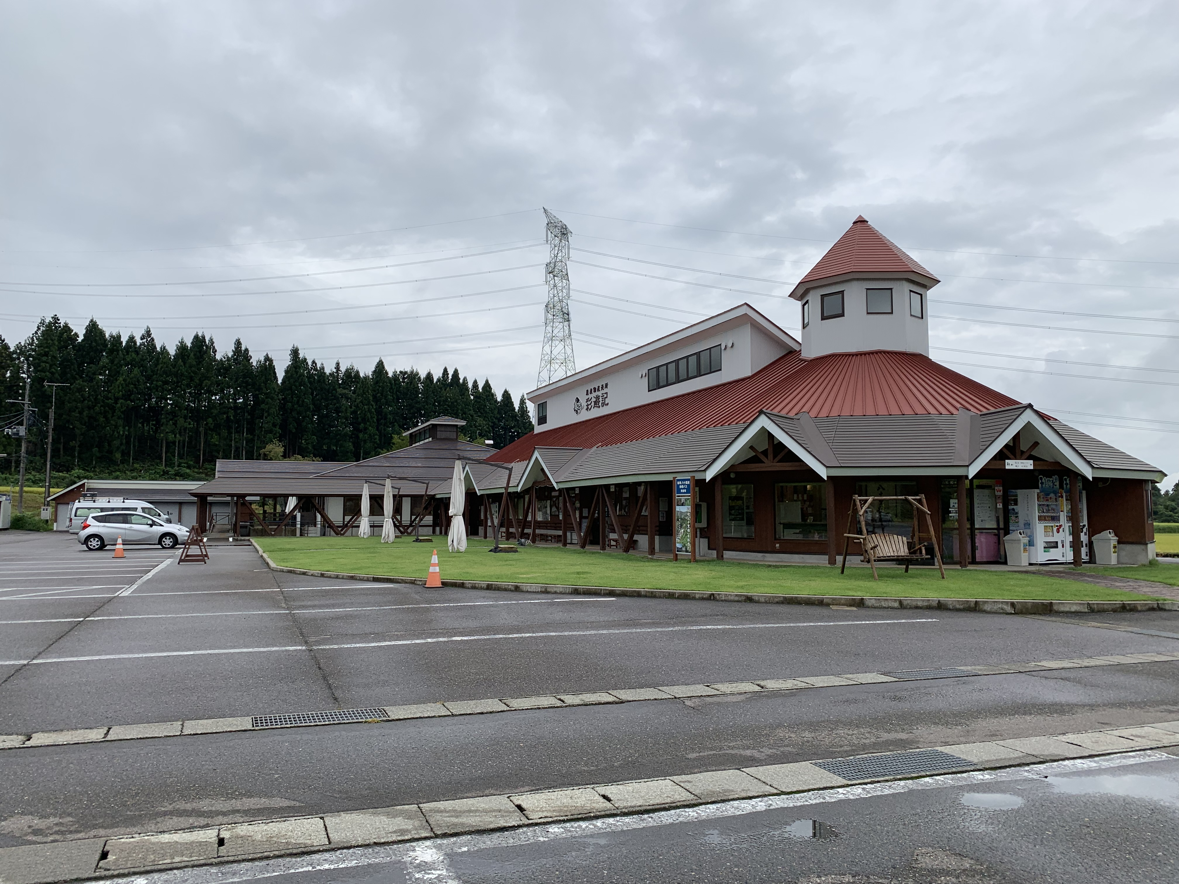 Kangaku no sato Shitada, Roadside Station, Niigata, Japan. Took photo in August 2019.